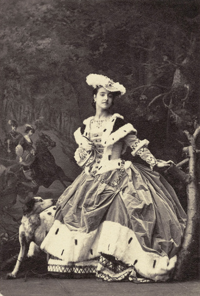 Camille Silvy (1835-1910) - Opera singer Adelina Patti (1843-1919) prior to 1869.